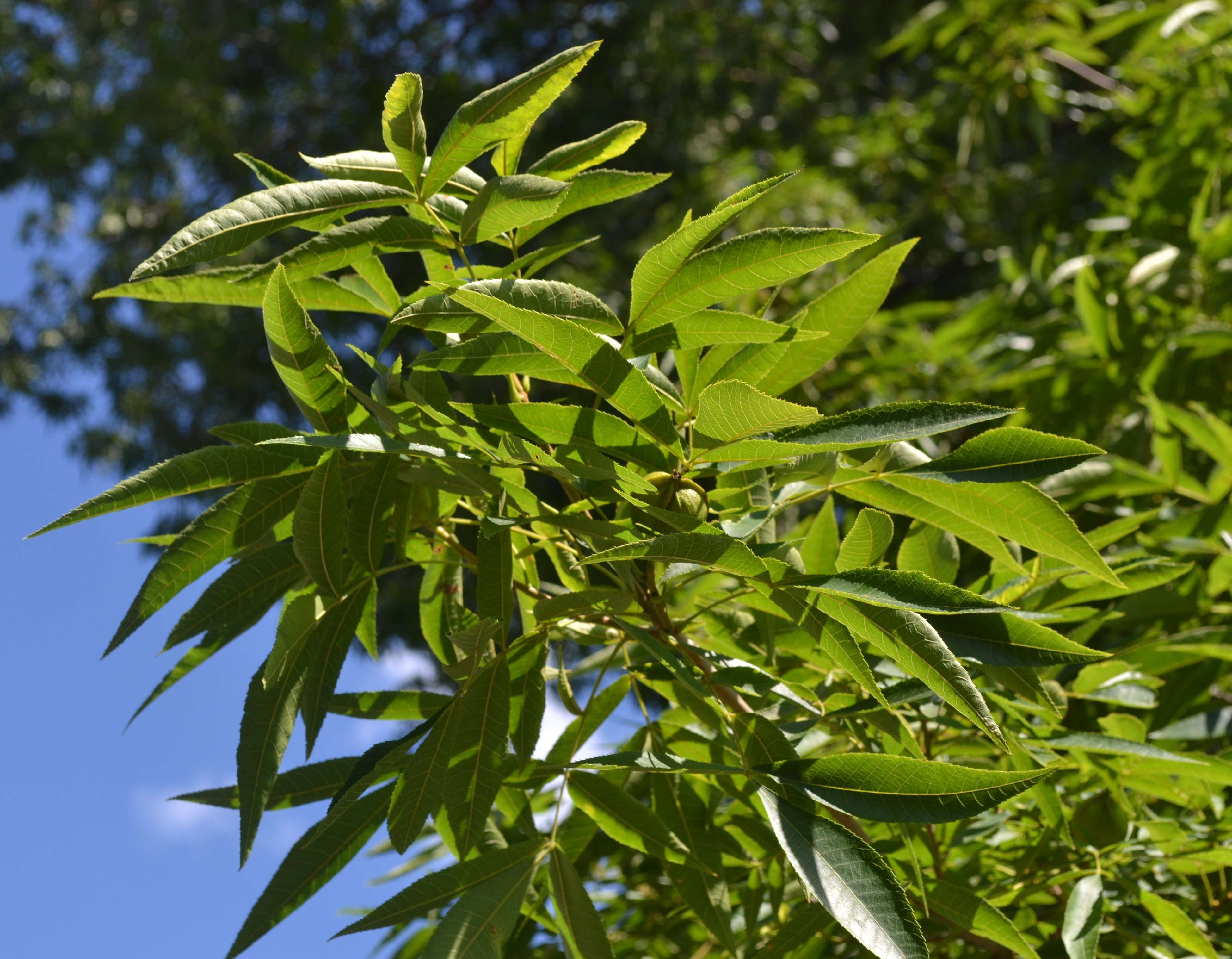 The leaves of Bitternut Hickory